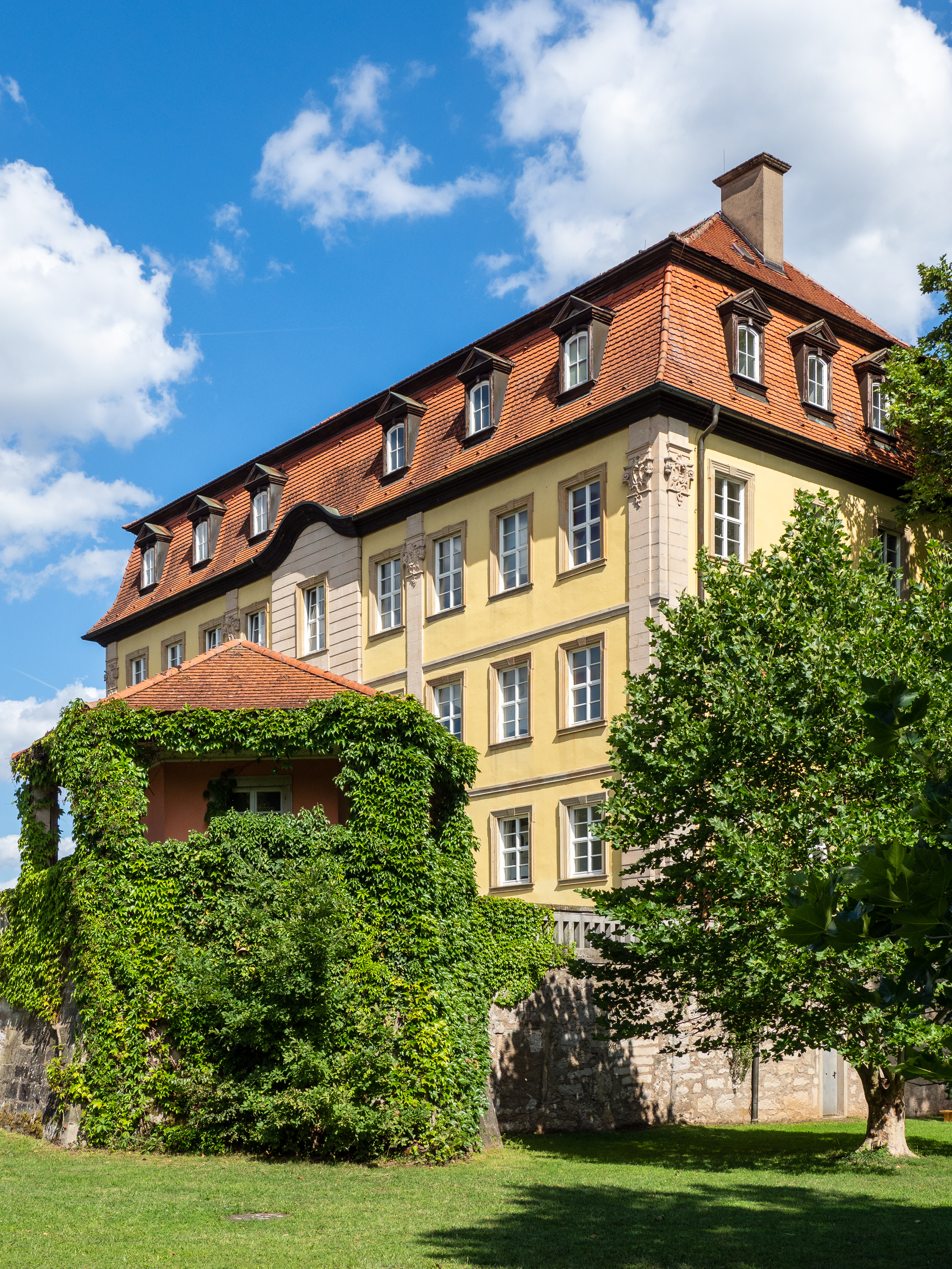 Gleisenau castle